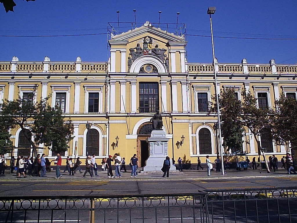 Casa Central headquarters